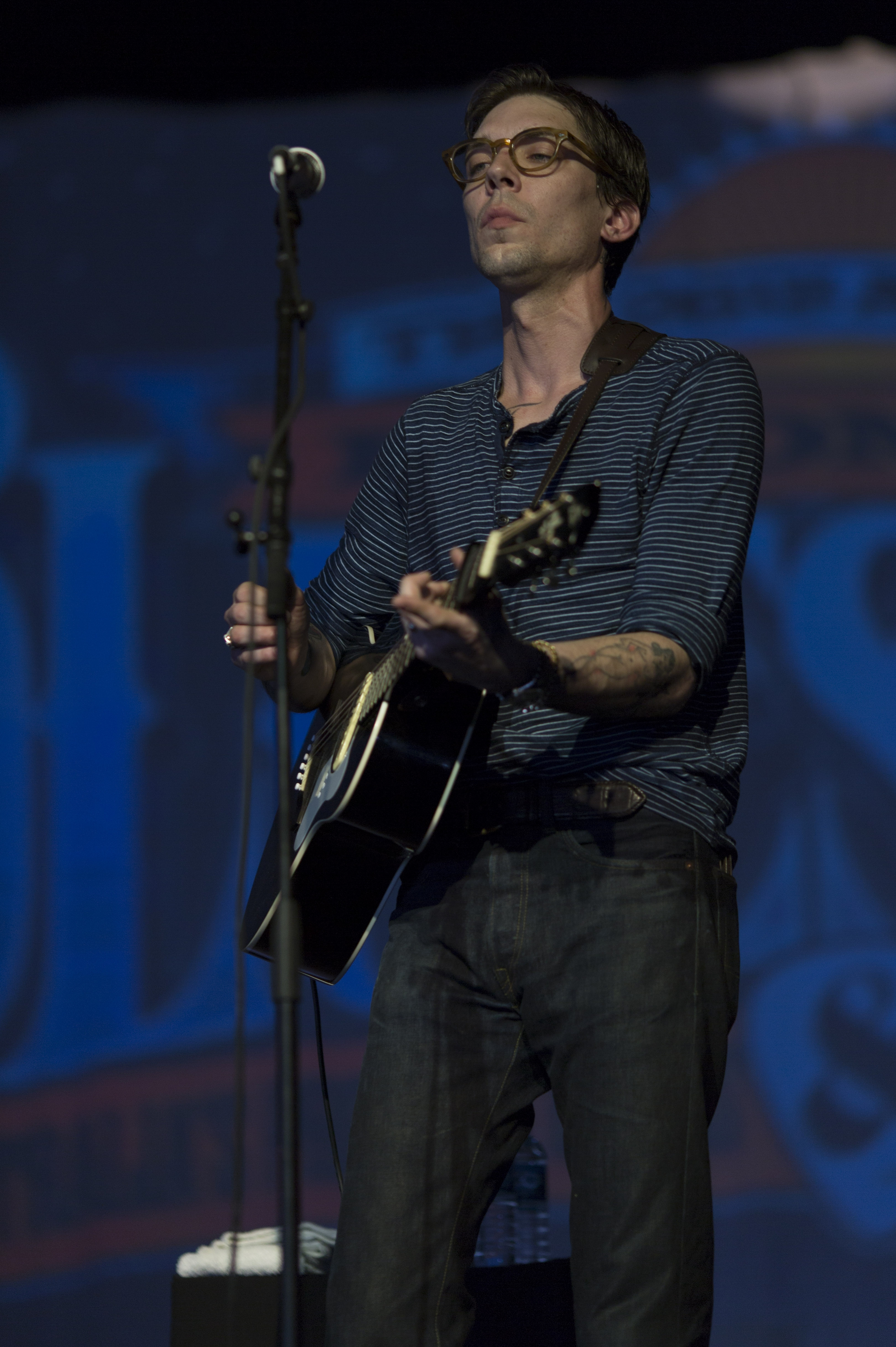 Byron Bay Bluesfest, 2015